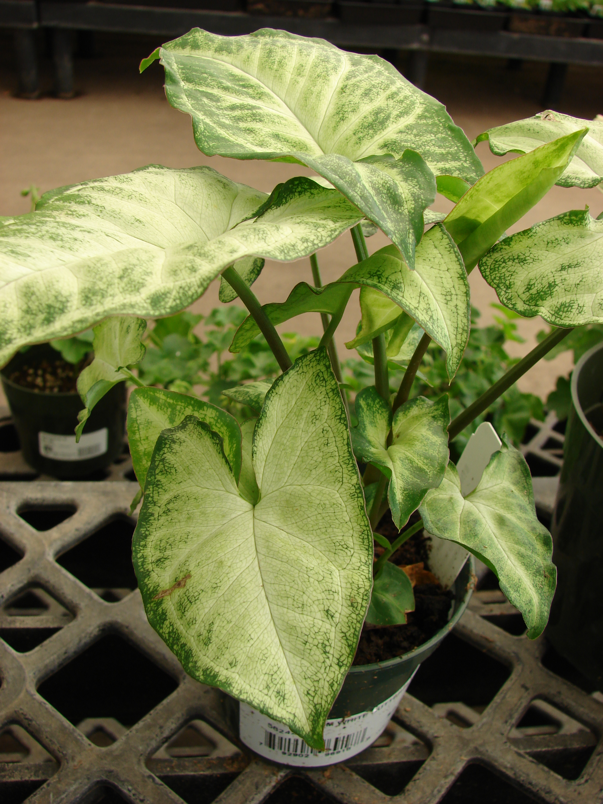 Syngonium podophyllum (habit). Location: Maui, Walmart Kahului